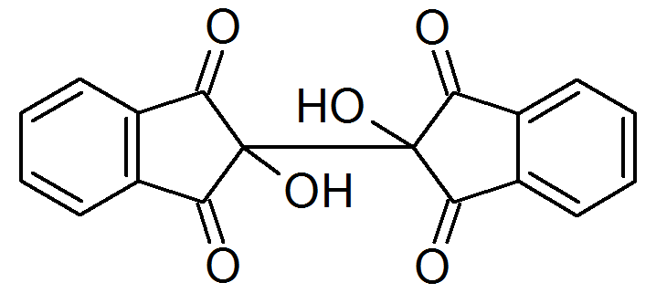 Chemical structure of Hydrindantin